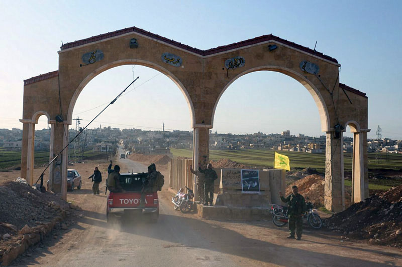 Syrian Army Breaks Several-Year-Long Siege of Nubl and Al-Zahra Towns